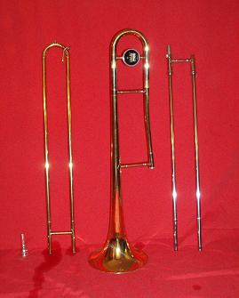 A dissasembled King 606 trombone.